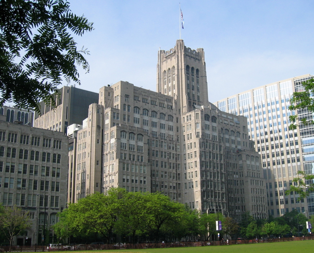 The Ward Building at the Northwestern University Feinberg School of Medicine in Chicago, Illinois.